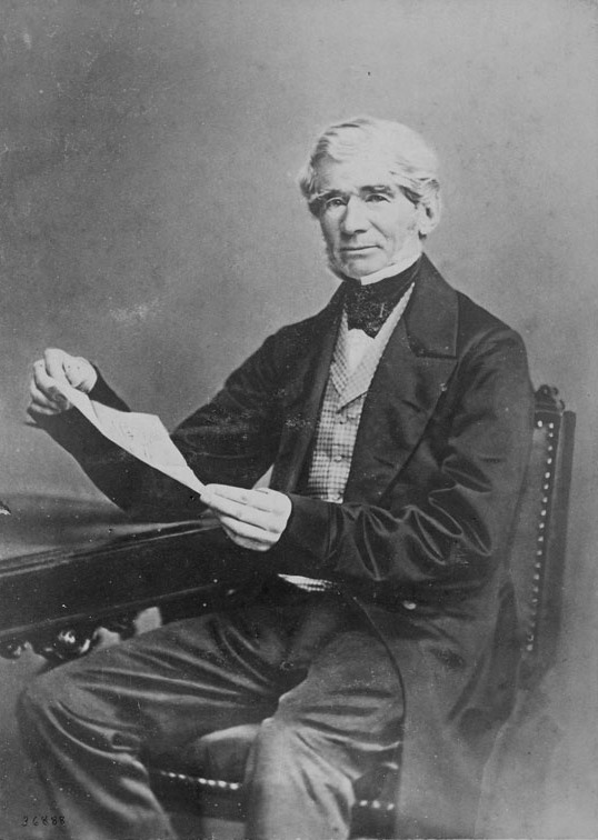 Photo by William Notman of Jeffery Hale, Canadian philanthropist. 1 photograph ; image 142 x 101 mm., on mount 164 x 106 mm. Positive Paper Silver - albumen, MIKAN 3332483